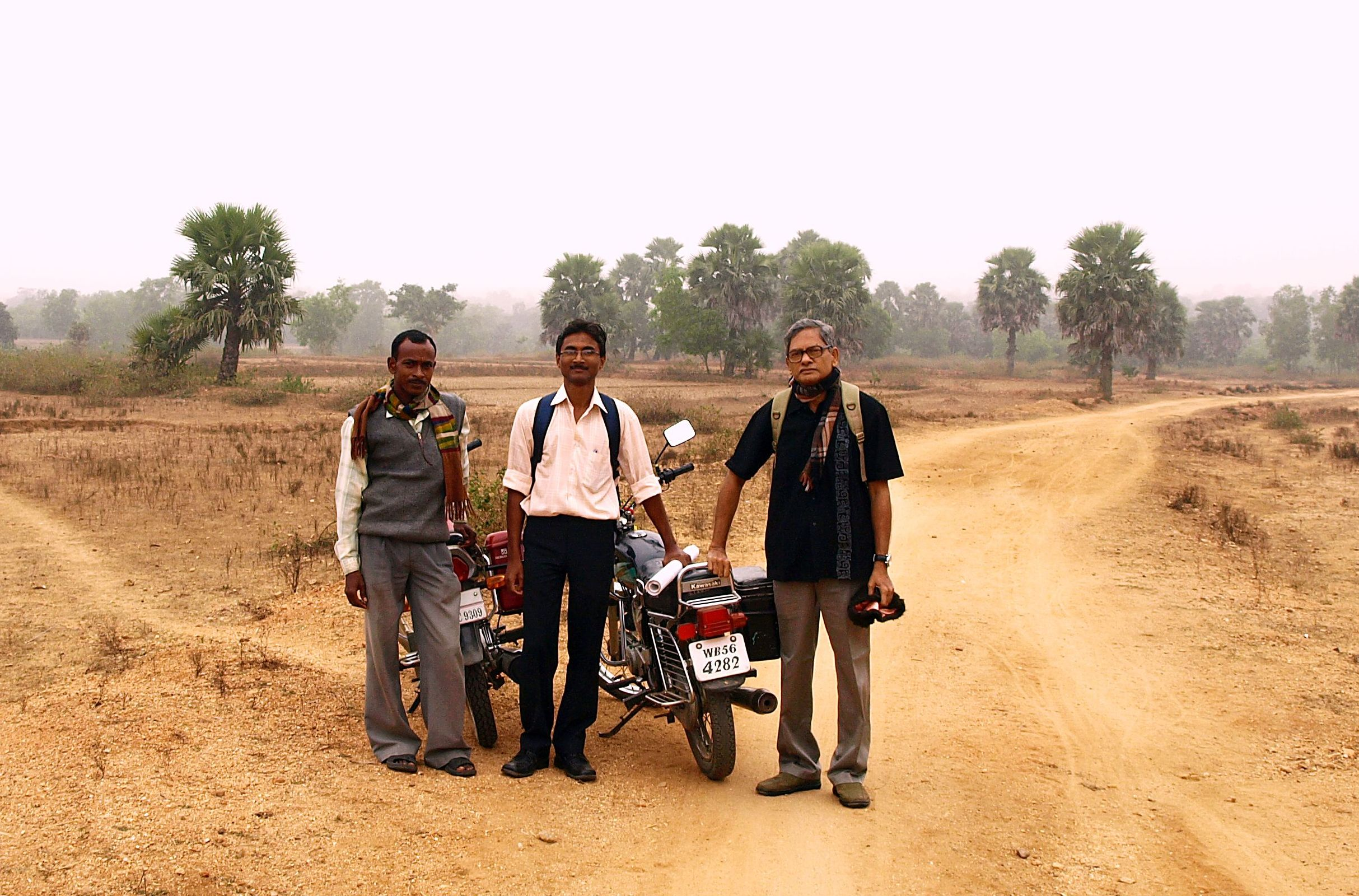 Two guys in accompaniment with Dhrubajyoti Ghosh